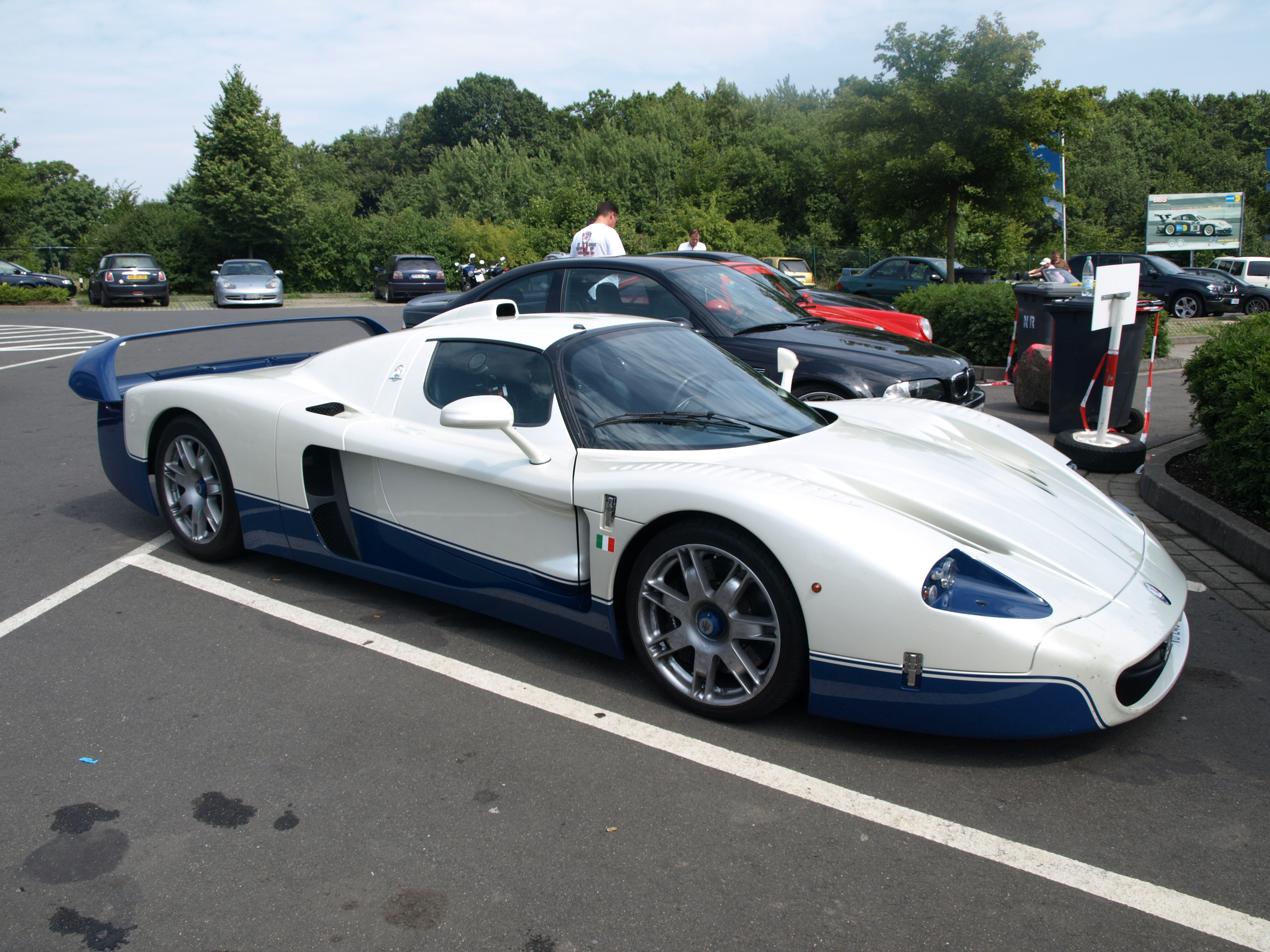 Maserati MC12 in the Nurburgring Car Park, Germany